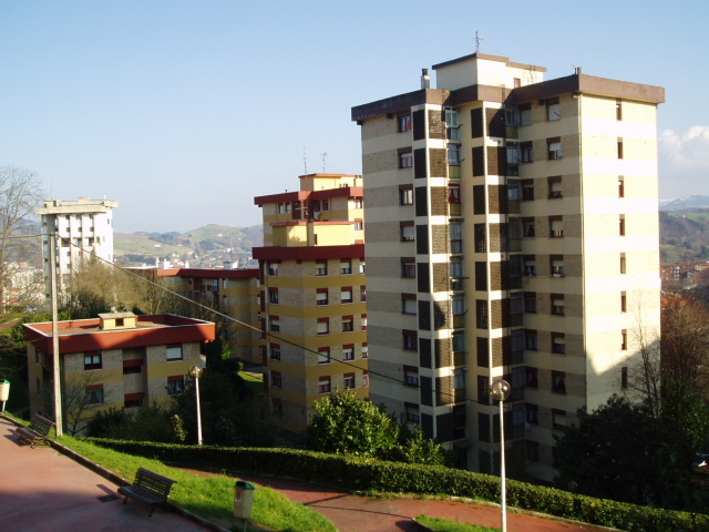 Vista Alegre district in Zarautz (Gipuzkoa).